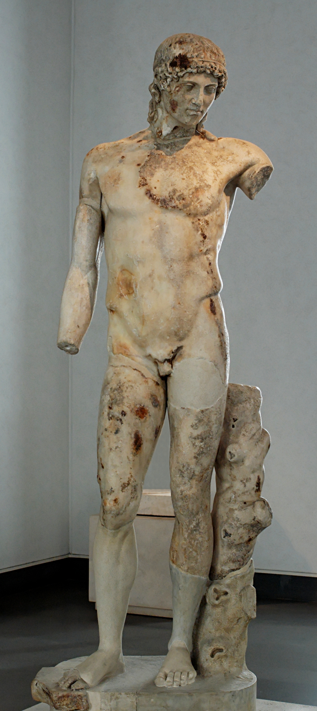 So-called “Tiber Apollo”. Marble, Roman copy after a Greek original dated ca. 450 BC, reign of Hadrian or Antoninus (117–195 CE).